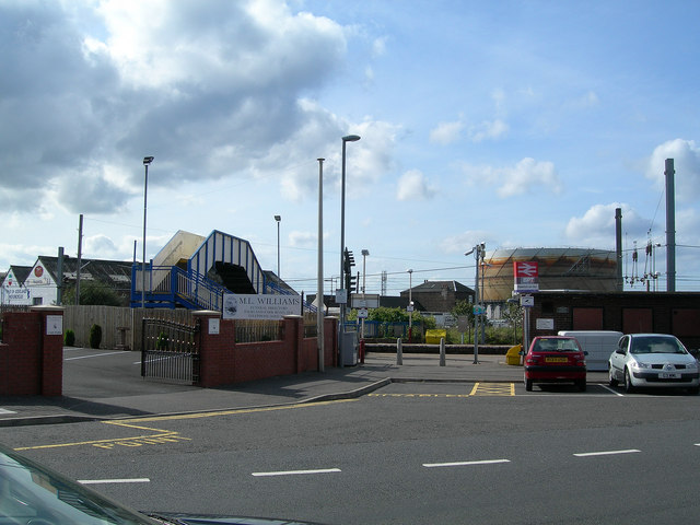 Newton-on-Ayr Station